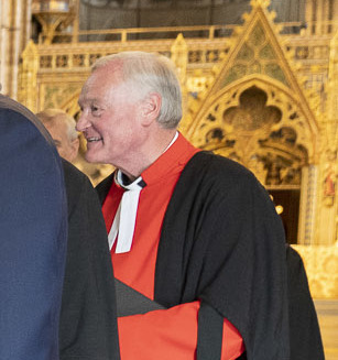 President Donald J. Trump bids farewell to the clergy at Westminster Abbey Monday, June 3, 2019 in London. (Official White House Photo by Shealah Craighead)